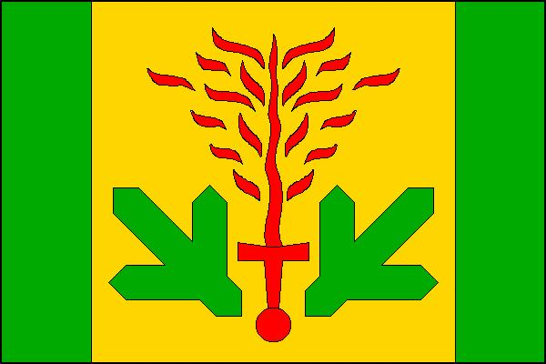 Municipal flag of Brandov village, Most District, Czech Republic.